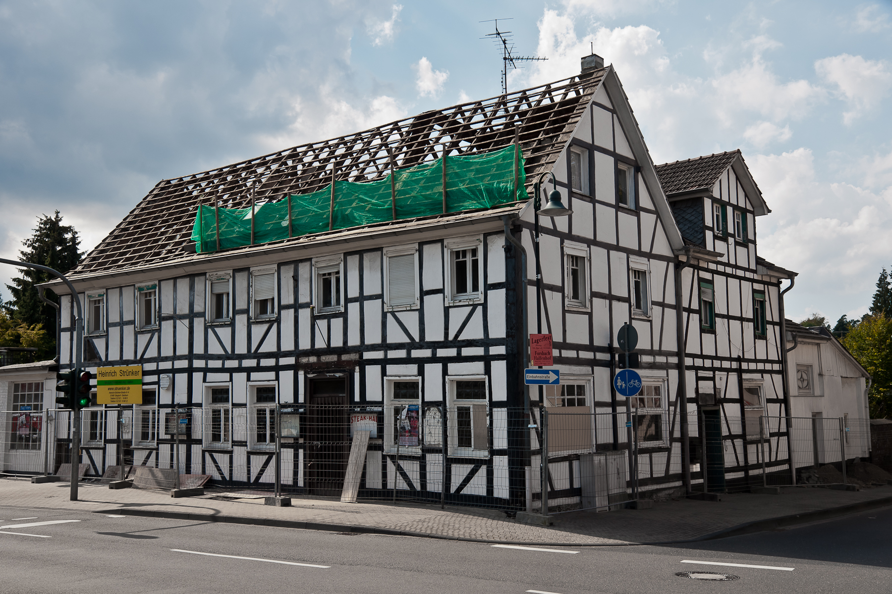 Rösrath-Forsbach, North Rhine-Westphalia, Germany: Forsbacher Hof; former cultural heritage monument No. 3